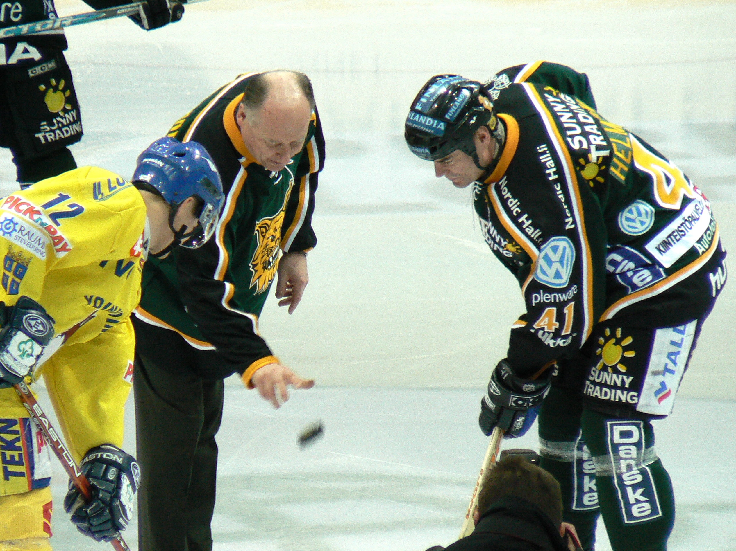 Finnish ice hockey legend Lasse Oksanen drops the ceremonial opening puck at an SM-liiga game between Ilves Tampere and Lukko Rauma. Facing off are Pekka Saarenheimo of Lukko (#12) and Raimo Helminen of Ilves (#41).